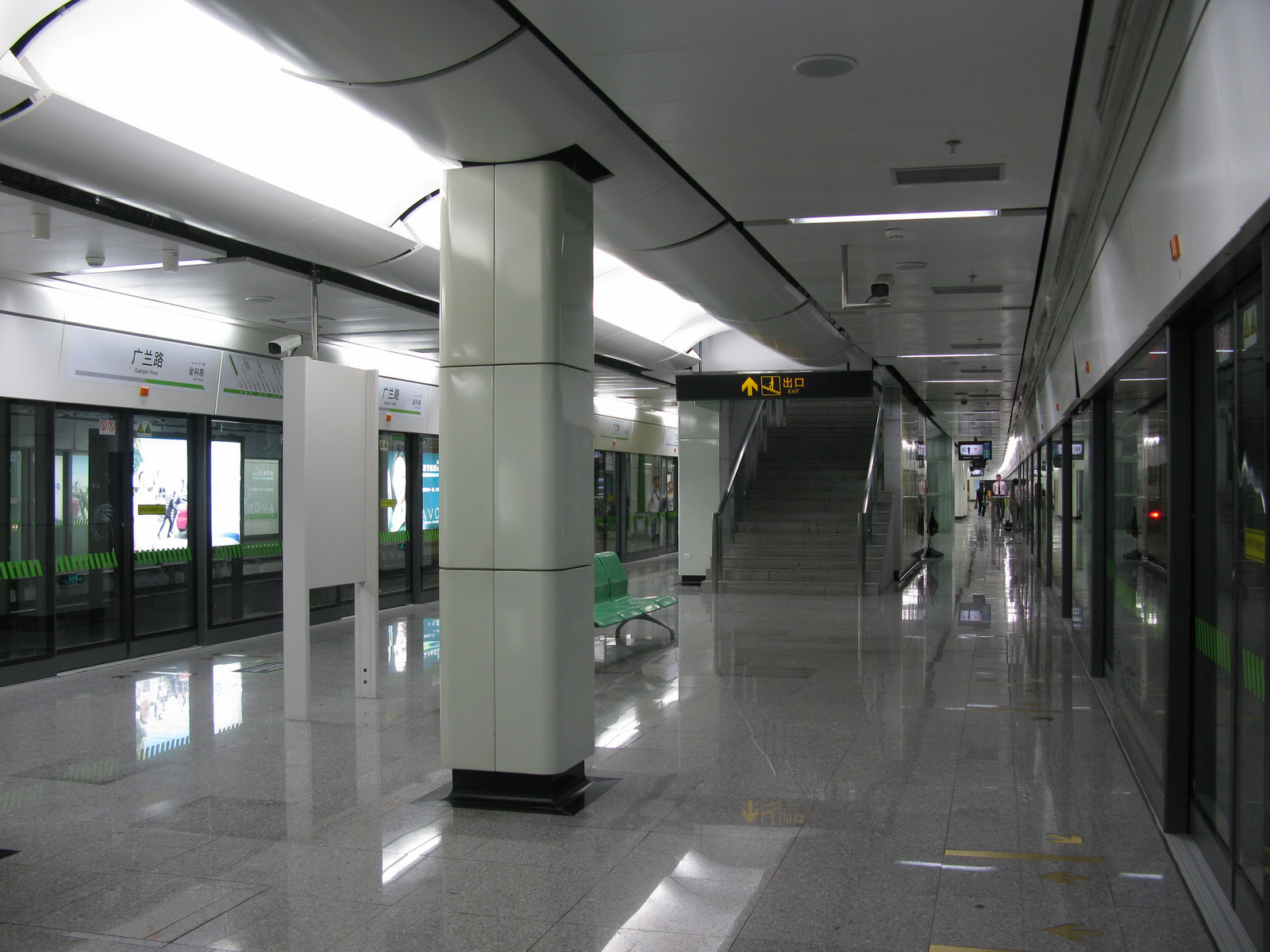 Line 2 Platform of Guanglan Road Station, Shanghai Metro